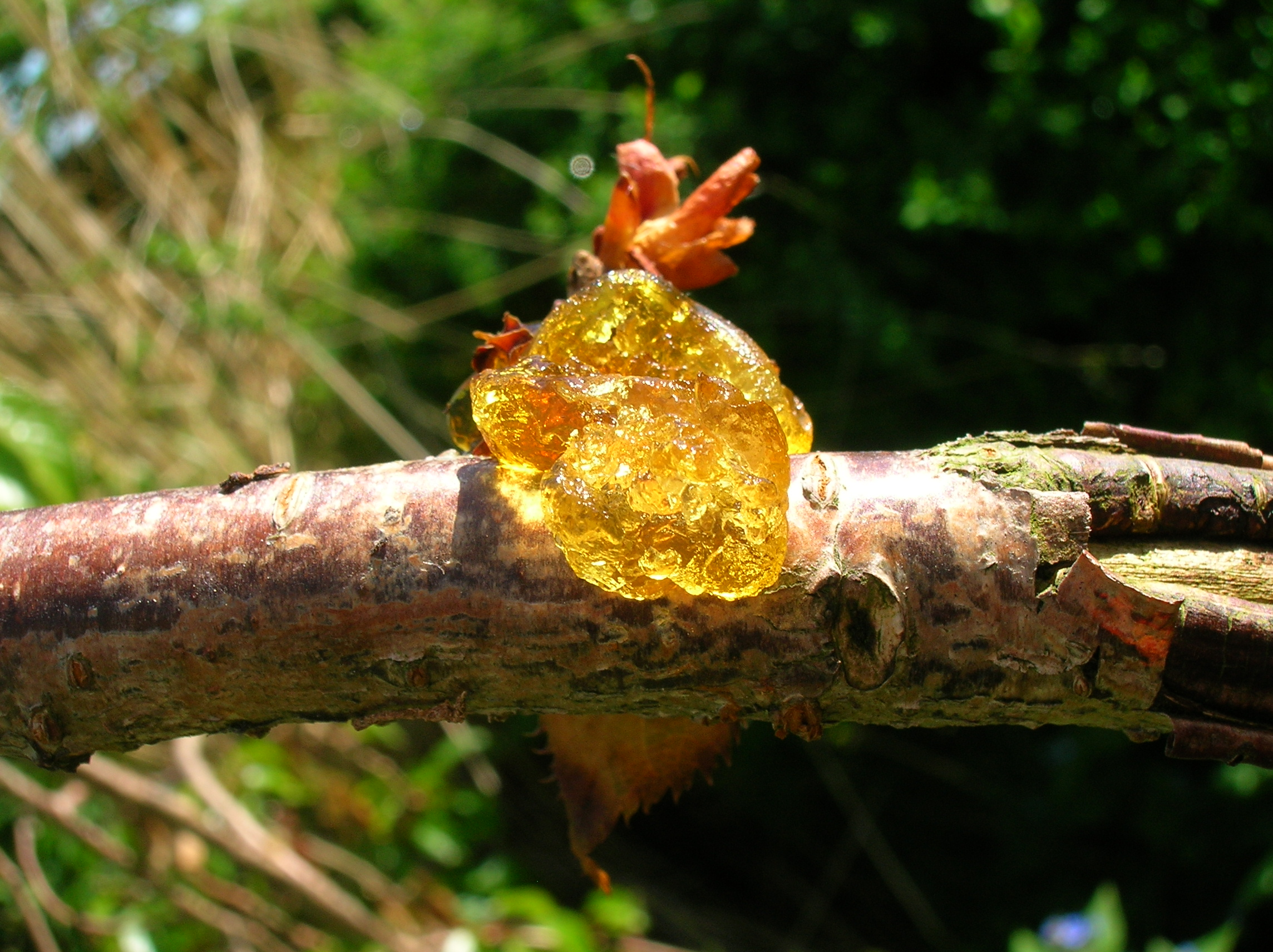 An ornamental cherry with canker induced gummosis. Chapeltoun, Ayrshire, Scotland.